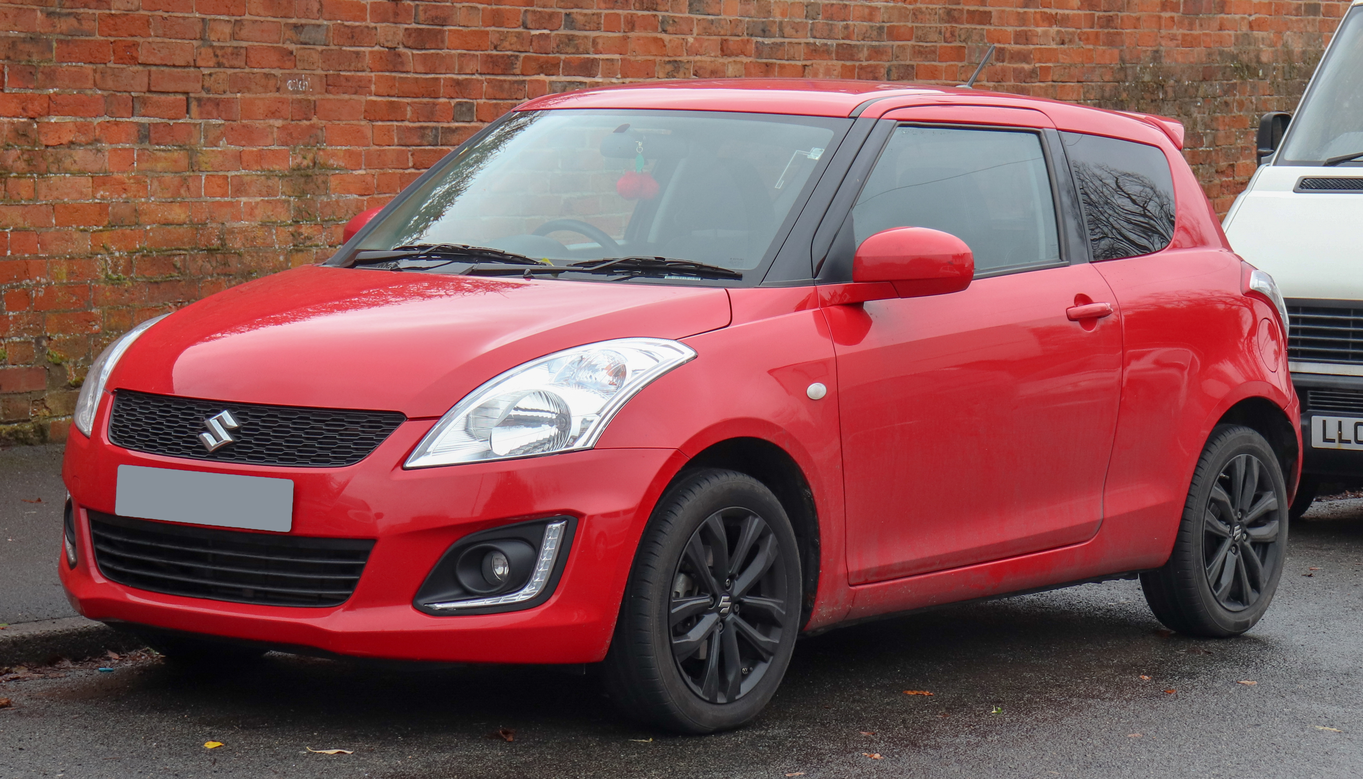 2017 Suzuki Swift SZ-L 1.2 Front Taken in Leamington Spa